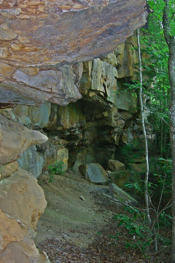 The cliffs at the top of the End Of The World Turn near Ivydale, WV.